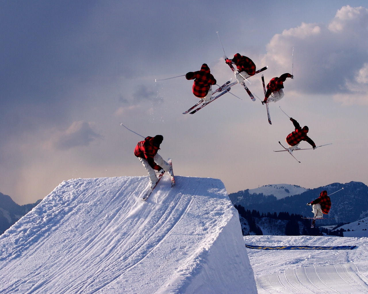 A free skier on a step down throwing a switch 7 iron